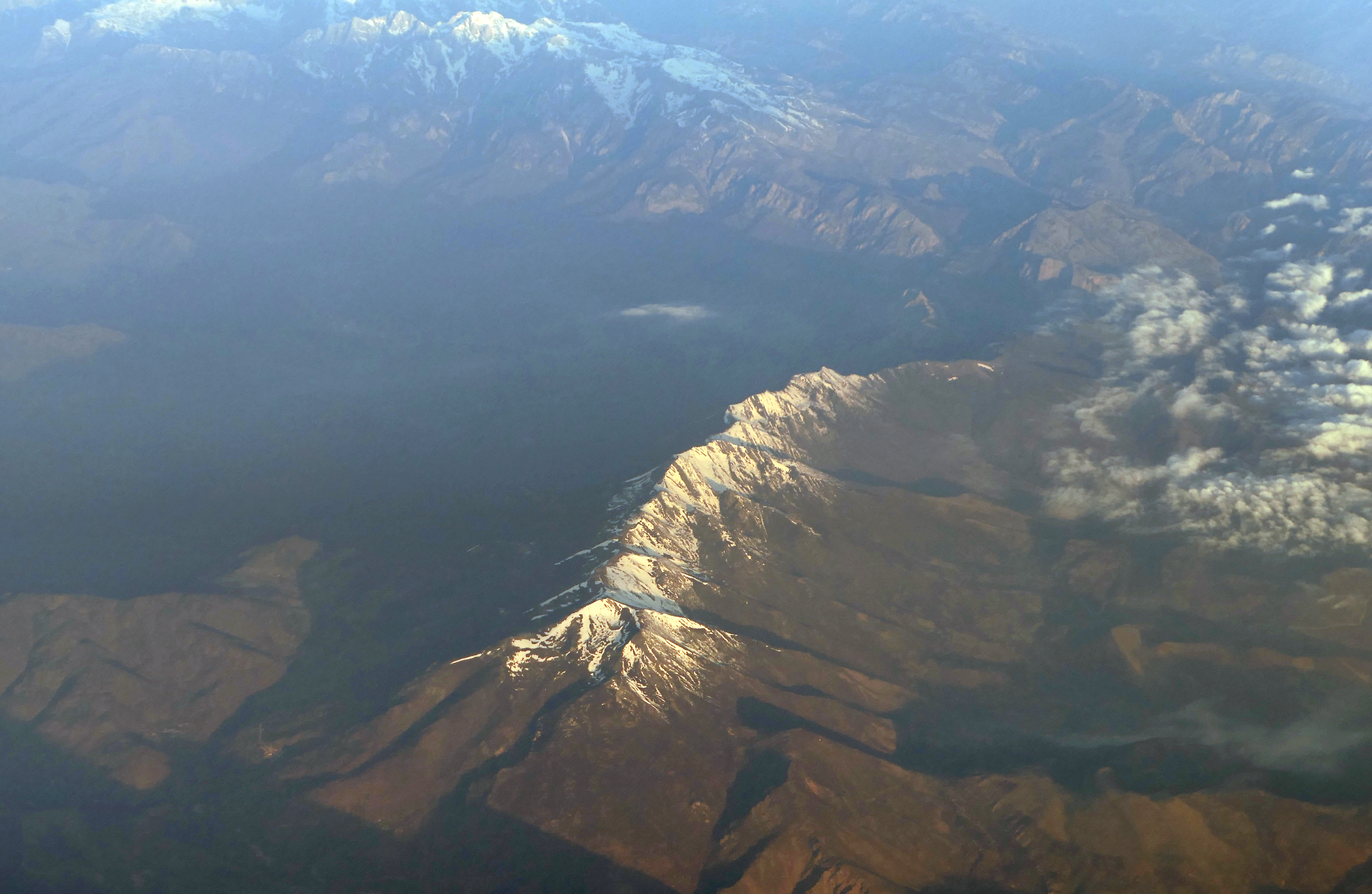 An aerial view of the Sierra de Peña Sagra in northern Spain, with the eastern edge of the Picos de Europa in the distance.